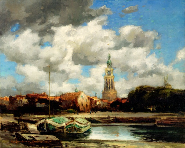 De stad Leiden